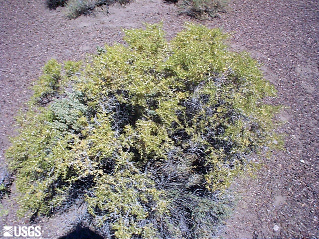 Greasewood shrub Sarcobatus vermiculatus